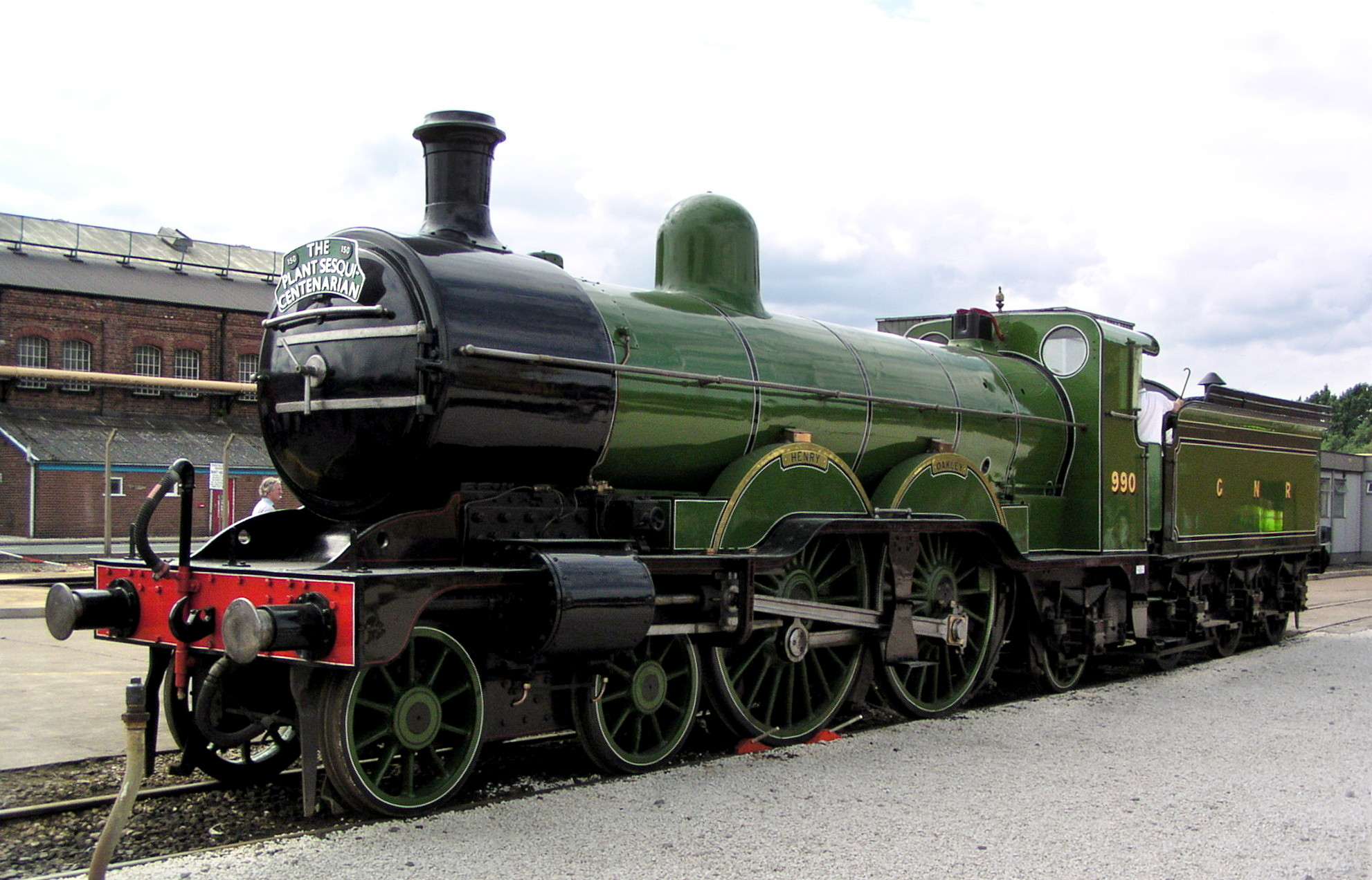 GNR 4-4-2 Class C2 "Klondyke" no. 990 "Henry Oakley" at Doncaster Works open day on 27th July 2003.